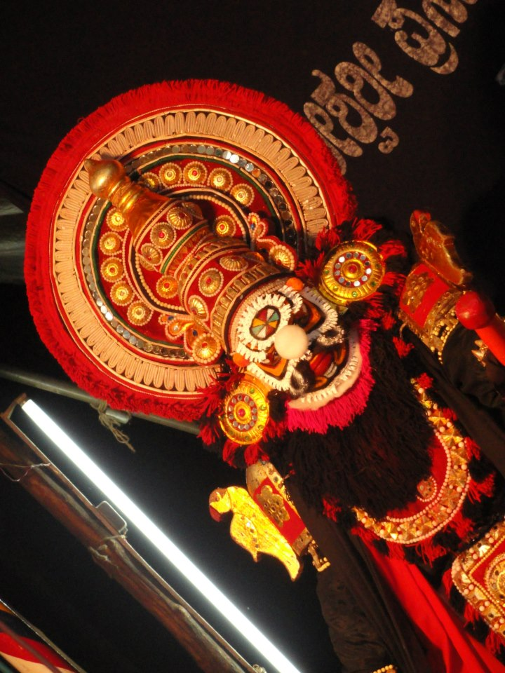 yakshagana